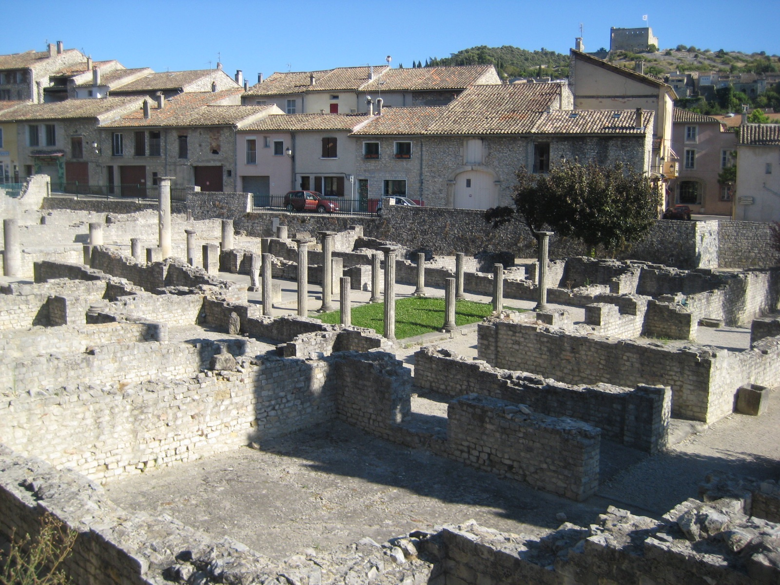 Silver bust house in Vaison-la-Romaine